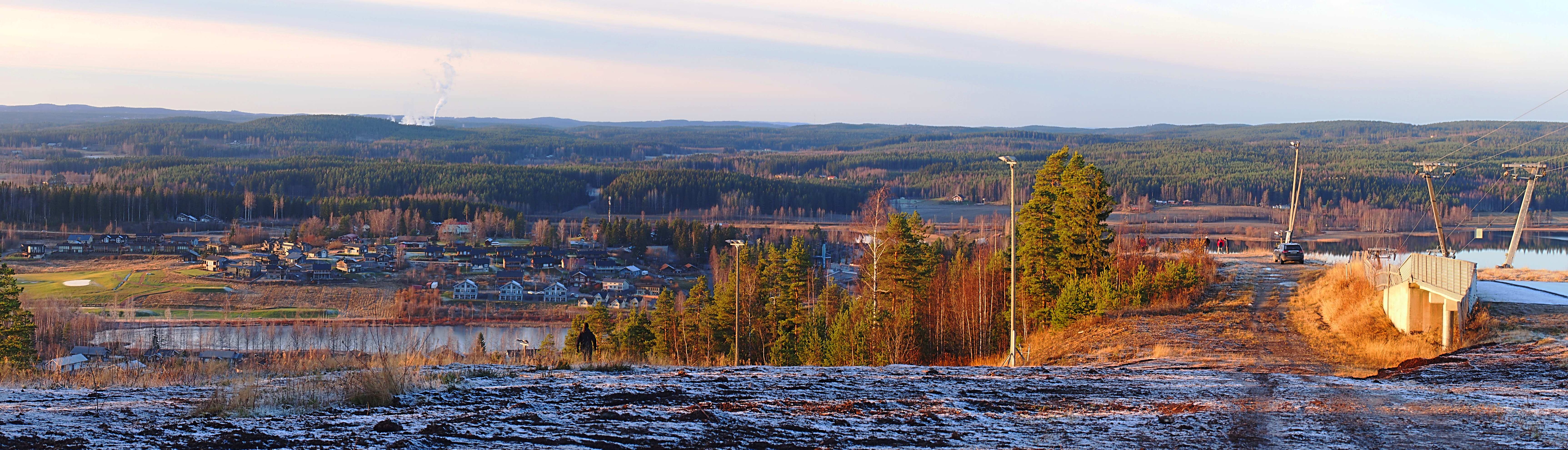 A west-bound panoramic view from the hills of Himosvuori in Jämsä, Finland. Late Fall.